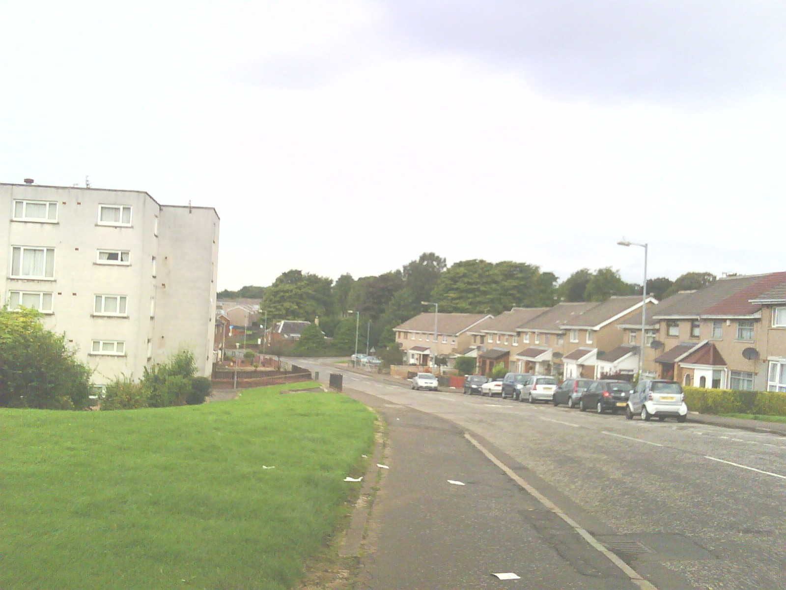 Looking down MacPhail Drive